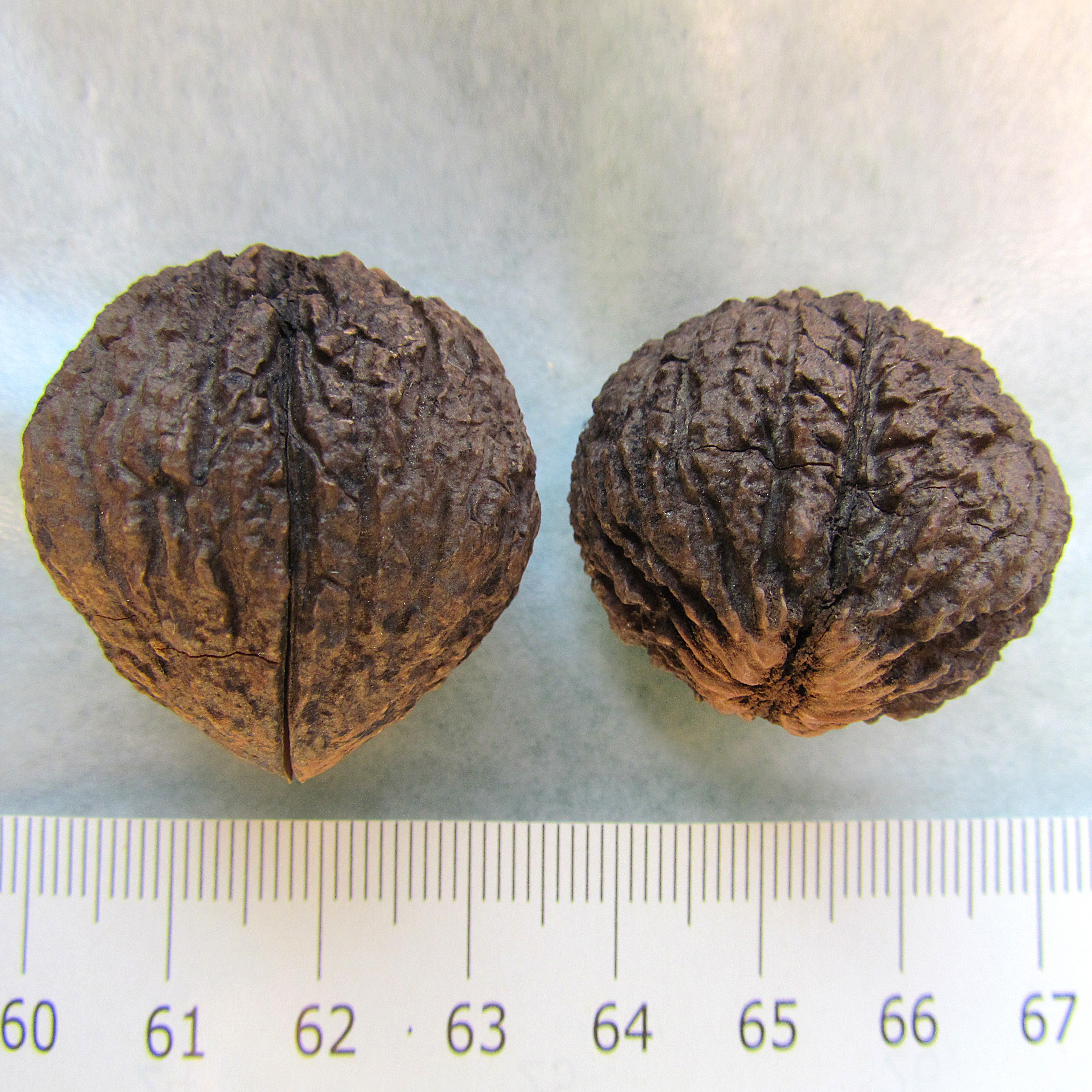 Juglans nigra nuts